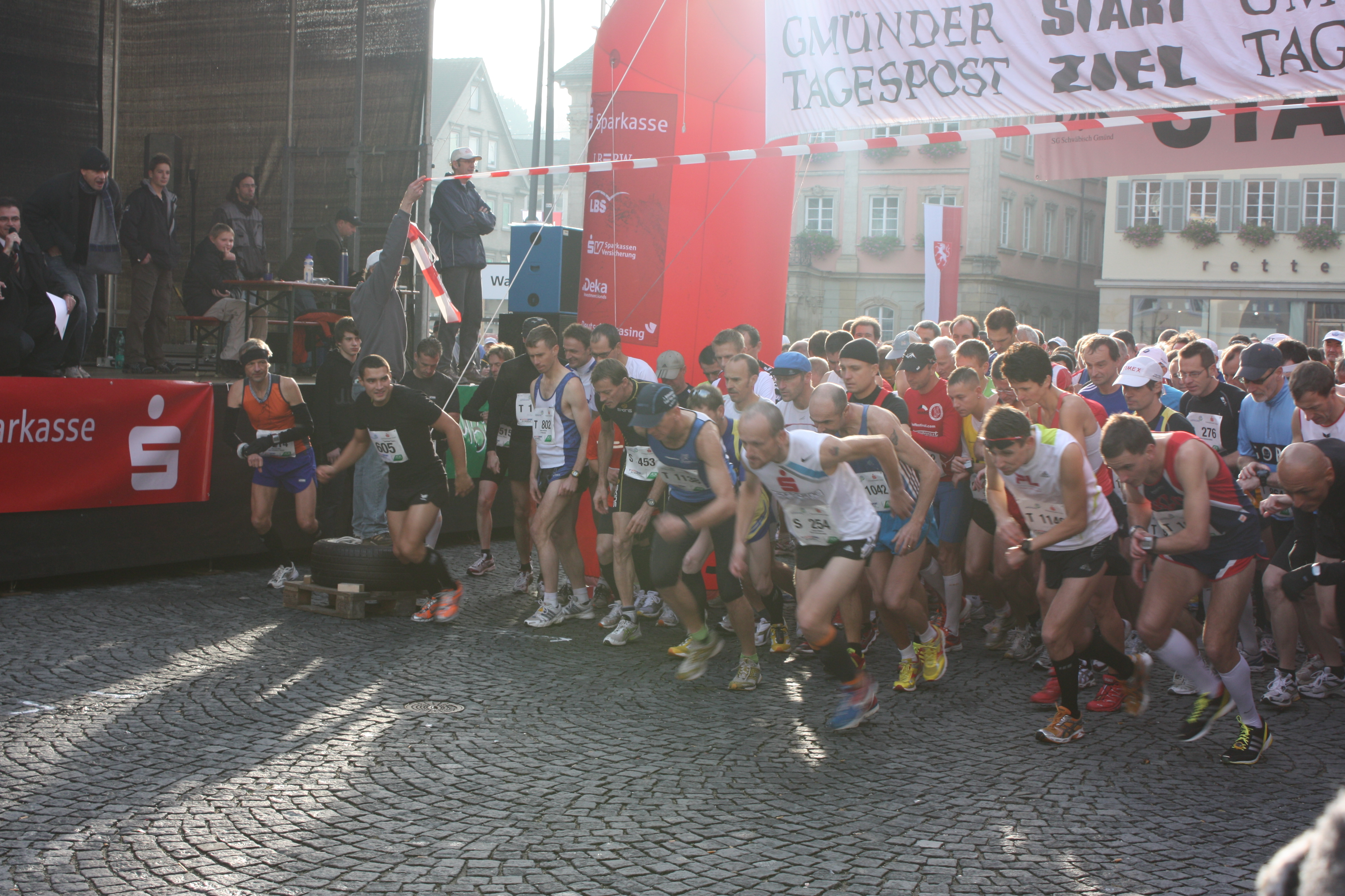 Start of the 19th Albmarathon 2009 in Schwäbisch Gmünd. With Nr. 254 Jürgen Wieser (won the competiton ten times, at last 2009)